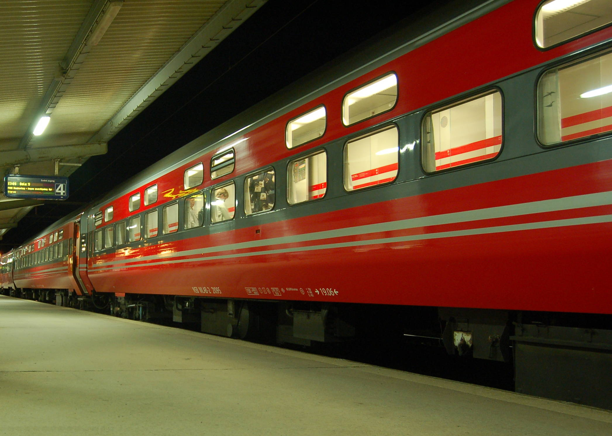 Norges Statsbaner WLAB2 wagons at Trondheim Central Station awaiting departure as night train to Oslo, Norway.